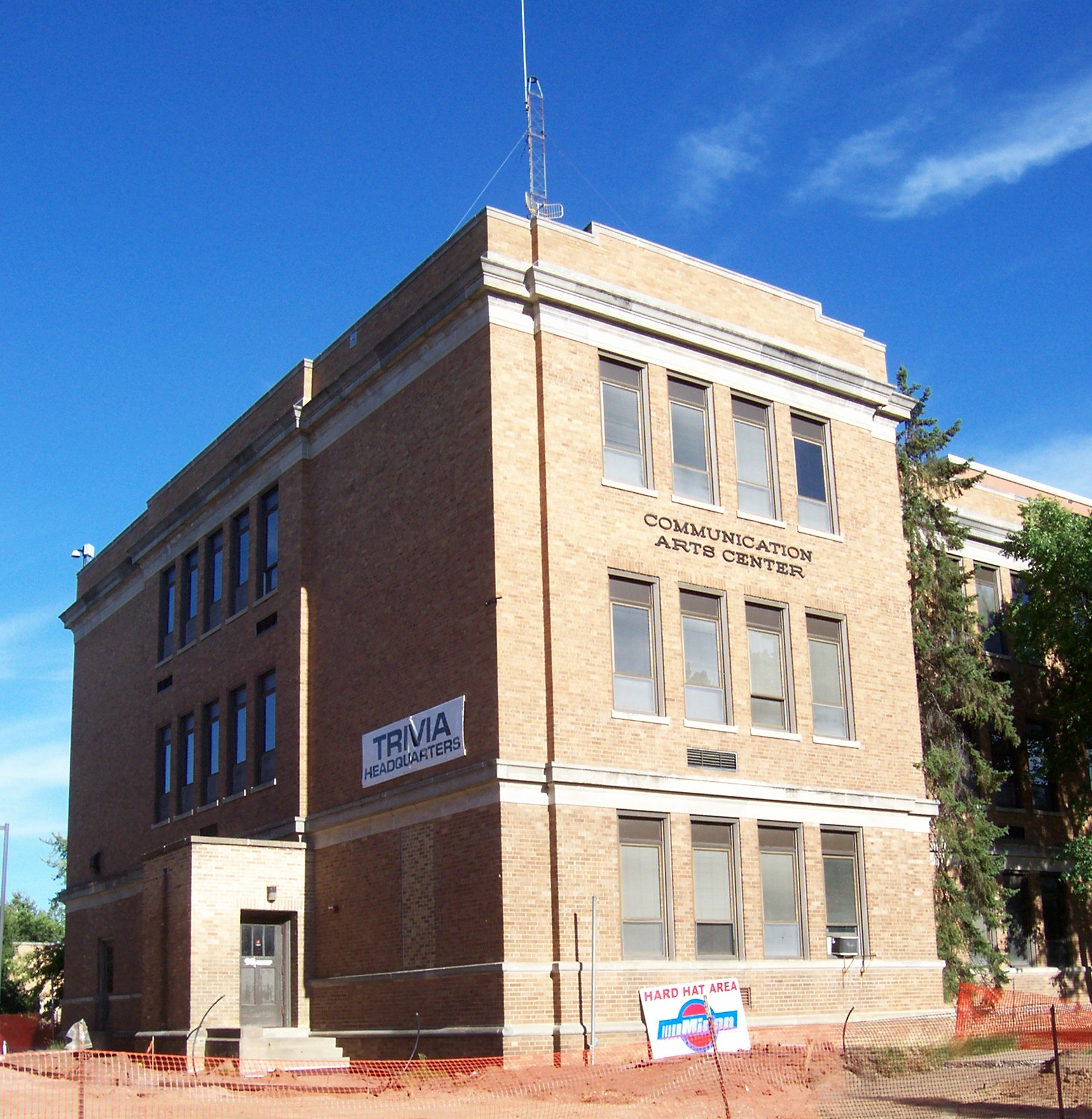 The headquarters for the WWSP radio trivia contest at the Communication Arts building at the University of Wisconsin-Stevens Point in Stevens Point, Wisconsin, USA.